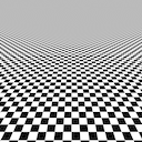 Antialiased chessboard using the Lanczos algorithm, made by myself based on the source in File:Antialiased.png's description. This one should be relatively close to an ideal filter, primarily because I used a lot of taps (several million) for the more problematic pixels.